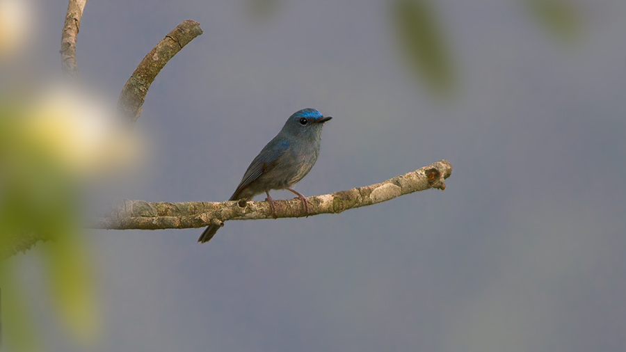 The species Pale Blue Flycatcher had been photographed during the birding tour of GoingWild in Mahananda Wildlife Sanctuary in West Bengal, India on 09.05.2016.